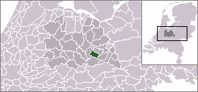 Location of Dutch former municipality Doorn in 2005. Made by me (Mtcv), PD.